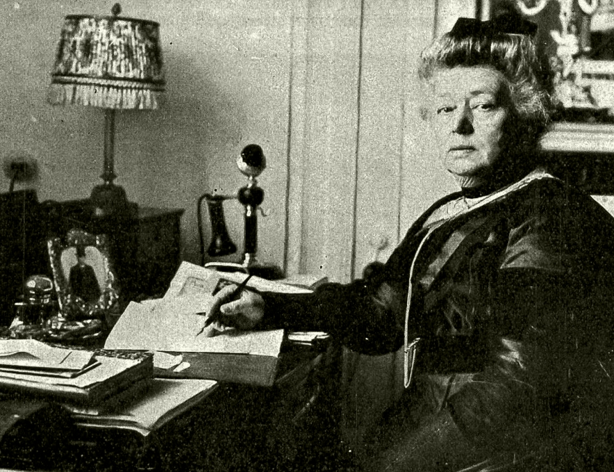 Bertha von Suttner, Bertha Sophia Felicita Freifrau von Suttner (1843–1914) Pazifistin, Schriftstellerin, Sie wurde 1905 als erste Frau mit dem Friedensnobelpreis ausgezeichnet.